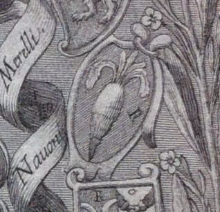 Dettaglio con Stemma della Famiglia Navone, da una rappresentazione grafica dell'Albergo Negrone.